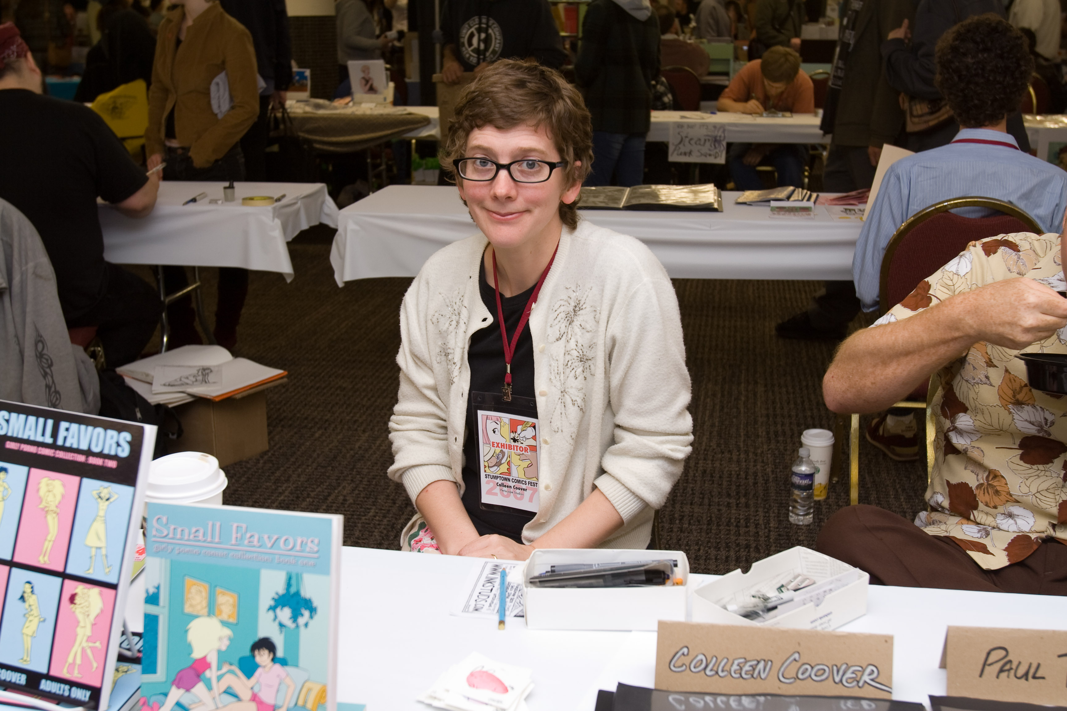 Stumptown Comics Festival 2007